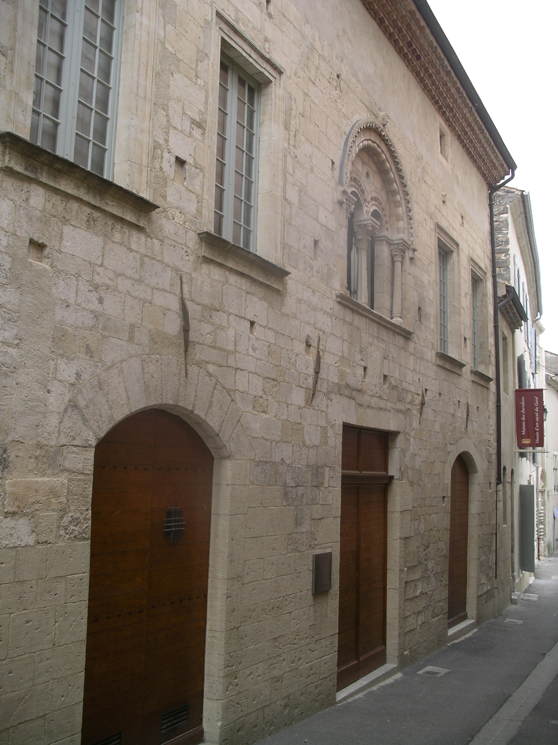 front of the sacred art museum in Pont-Saint-Esprit (Gard), Rhone valley, France